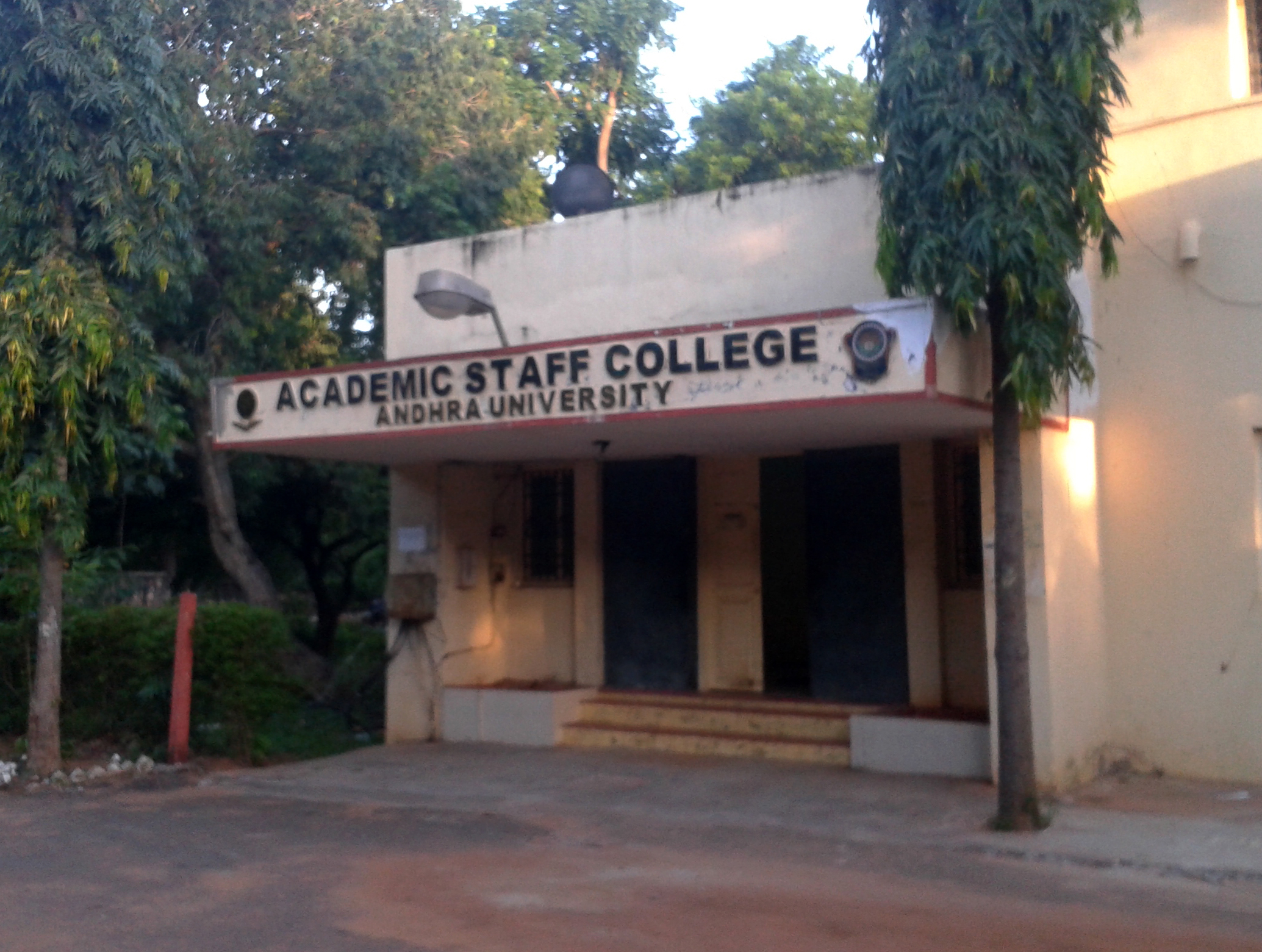 Academic Staff College at Andhra University, Visakhapatnam